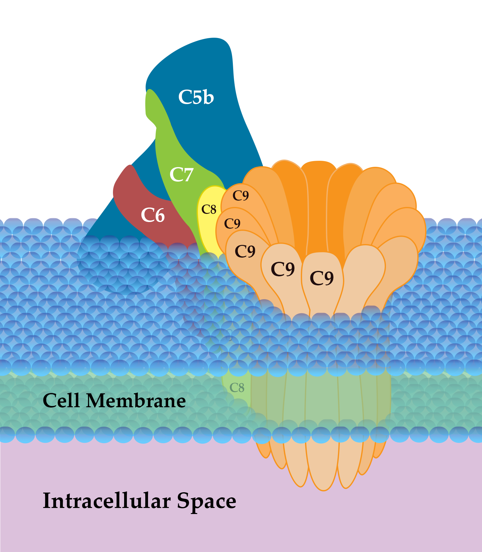 Membrane Attack Complex (MAC) is ther terminal complex of the complement system of the innate immune system. It forms pore-like holes in cell membranes.